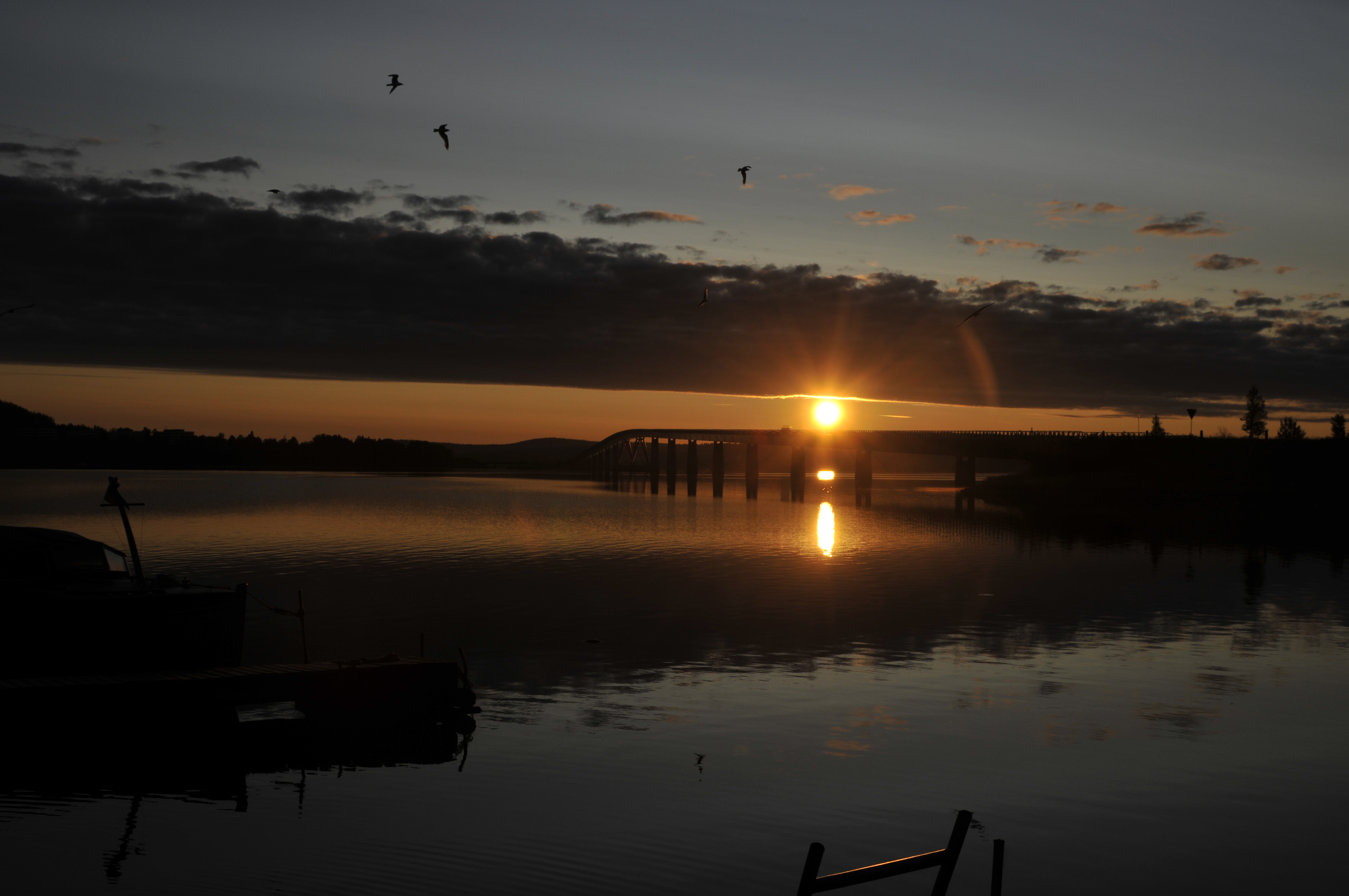 Sunrise from Knytta in the County of Jämtland in Sweden. The bridge of Vallsundsbron /Vallsundsbridge is in the background.